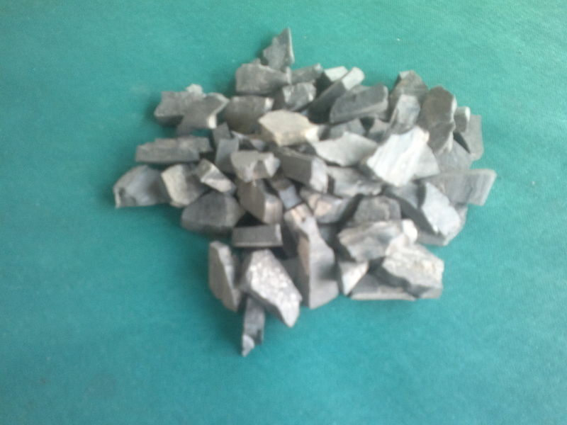 Oltu stone (Turkish: Oltu taşı), aka black amber, is a kind of jet found in the region around Oltu town within Erzurum Province, eastern Turkey. The organic substance is used as semi-precious gemstone in manufacturing jewellery.